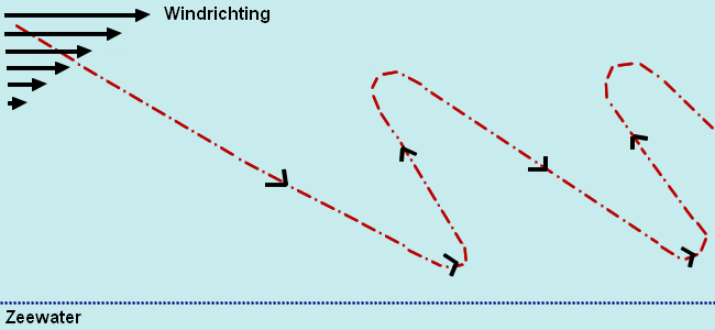 Flight route of an albatros.